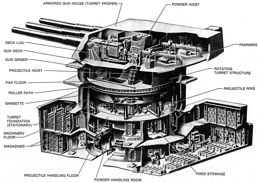 "The 16-inch gun mounts, known as turrets, occupied five levels of the ship. Three turrets were constructed on the North Carolina, two on the bow and one behind the superstructure, each with three big cannons. More than 150 men were required to keep each turret working properly and the guns firing. Built to go head to head with the guns of other battleships at seas, the 16s became the major weapon for island bombardment." Comment : this shows a turret with three 16-inch Mark 6 guns on a North Carolina class battleship.